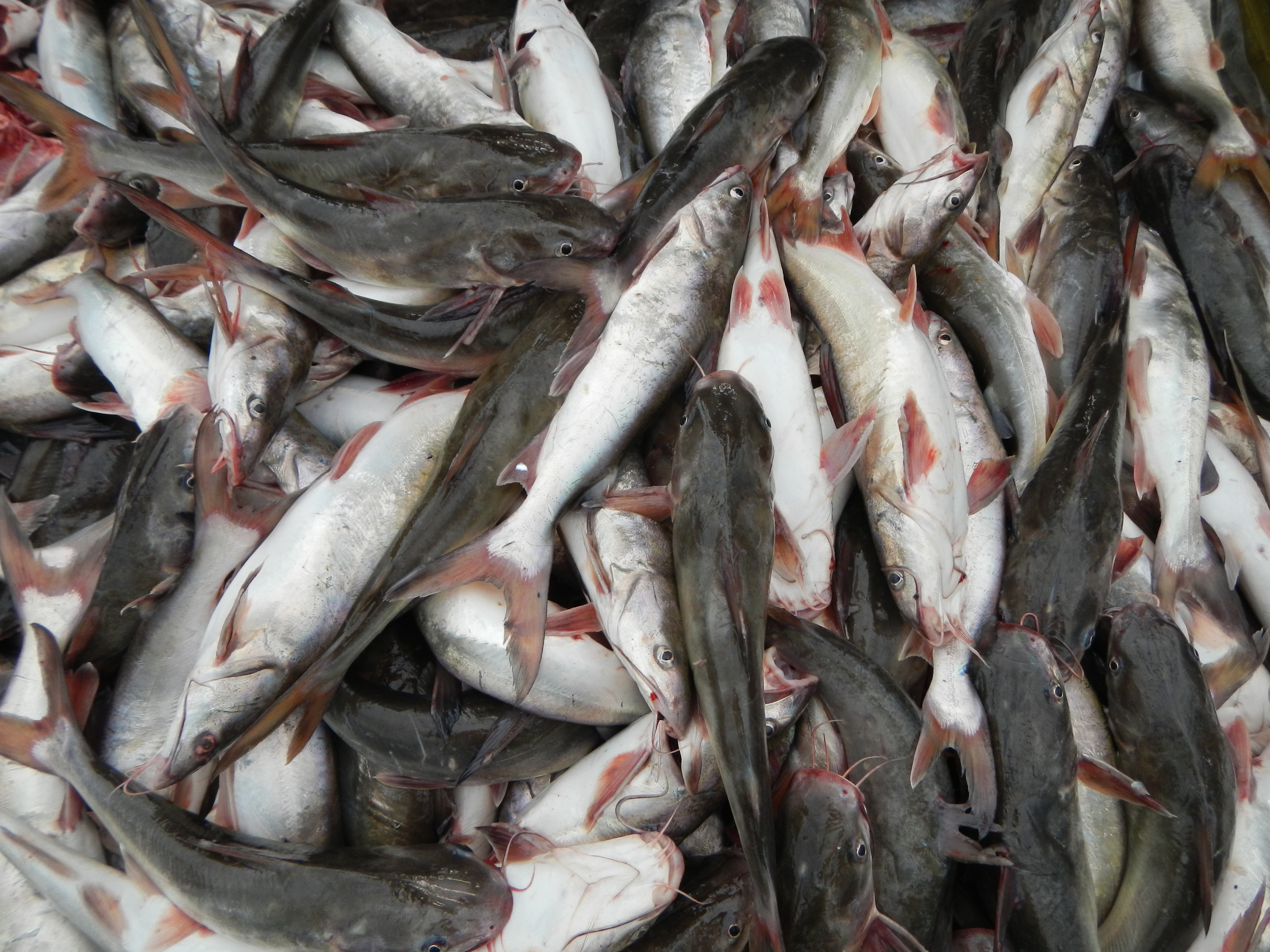 Rare, raw, unedited and original photos of the Cardona Municipal Fish Port [1] Region IV-A “Cardona Municipal Fishport Comprehensive System of Management and Operation.” Bgy. Looc, Cardona, Rizal 3,232 m2 [2]Bureau of Fisheries and Aquatic Resources (Philippines)[3][4] Philippine Fisheries Development Authority[5] (PFDA) was created by virtue of P.D. 977 as amended by E.O. 772[6]Department of Agriculture (Philippines) ----the fish pens and fish pond of Cardona, Rizal[7] Coordinates: 14°27'32"N 121°13'26"E [8] Website [9] geographical location: Rizal, Region 4, Philippines, Asia Geographical coordinates: 14° 29' 11" North, 121° 13' 46" East This place is situated in Rizal, Region 4, Philippines, its geographical coordinates are 14° 29' 11" North, 121° 13' 46" East and its original name (with diacritics) is Cardona.[10] [11][12] [13] Cardona is a first class urban municipality in the province of Rizal, Philippines. According to the 2010 census, it had a population of 47,414 inhabitants in 7,953 households. Cardona is in District 2 of Rizal. Cardona is politically subdivided into 18 barangays, 11 of which are on the mainland and 7 on Talim Island.[14] ---------[N.B. June 2, Sunday day, 2013 Photography of Angono, Rizal[15], Binangonan, Rizal[16] and Cardona, Rizal[17]: 80% cloudy and 20% sunny weather using my Nikon AW 100 waterproof shockproof camera. From Bulacan at 10:45 a.m., I took photo at 12:25 pm of Goldenhills Jewelry of Antonio Z. Atienza, Jr.[18] in Robinsons Ortigas; and reached Angono, Rizal junction, crossing at 2:06 pm, then took photos of Binangonan Municipal Hall at 2:44 pm; I finished Cardona, Rizal photography at 5:17 p.m., and arrived at Bulacan at 9:30 pm after 3+ hours of travel by bus, and started uploading via slow internet at 9:50 pm - I hereby certify that these rarest, raw, original and unedited photos are exclusive for Commons and Wikipedia never uploaded in any Internet or any site, and for the public domain without any condition.]